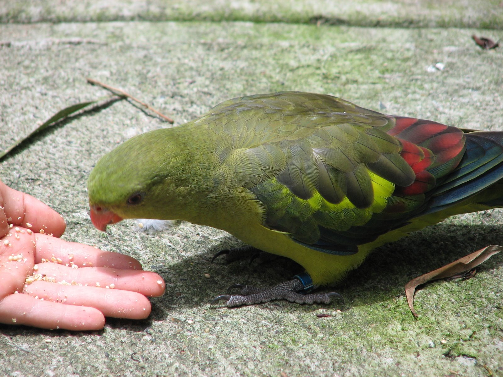 A Regent Parrot in Flying High Bird Sanctuary, Australia. It is feeding from seeds on a left hand.